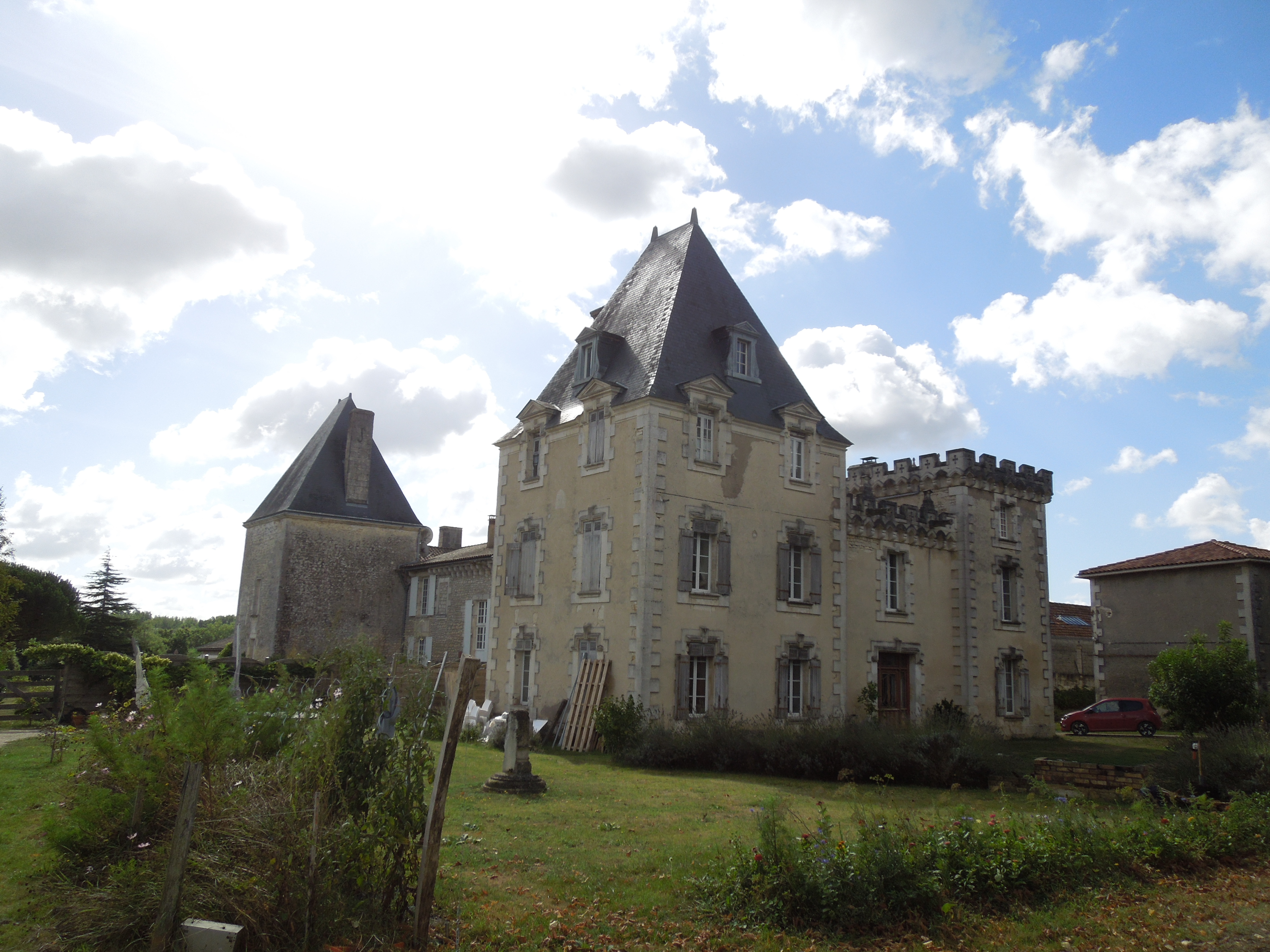 Chateau de Favières near Mosnac, view from northeast